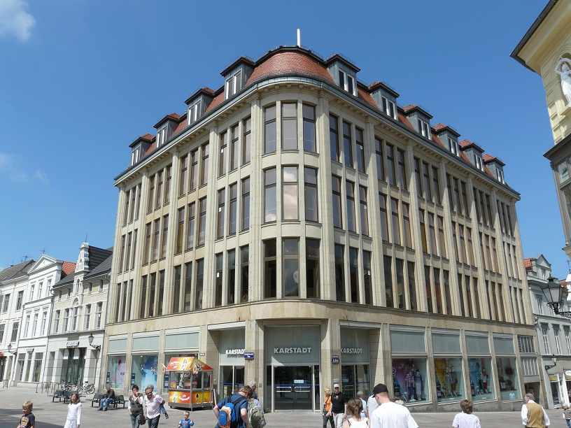 Karstadt Wismar (First Karstadt Shop)